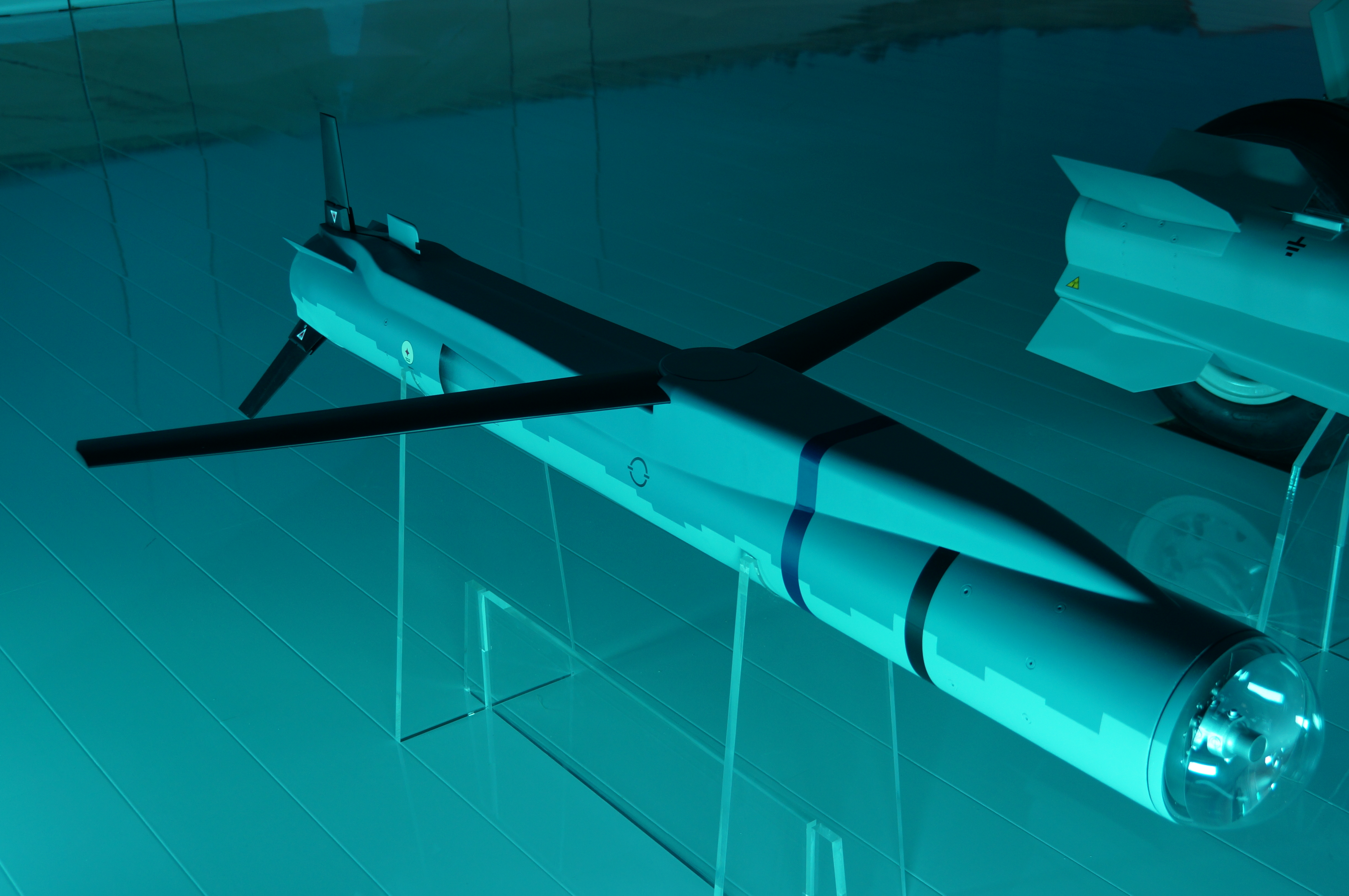 MBDA SPEAR 3 Missile, wings deployed.